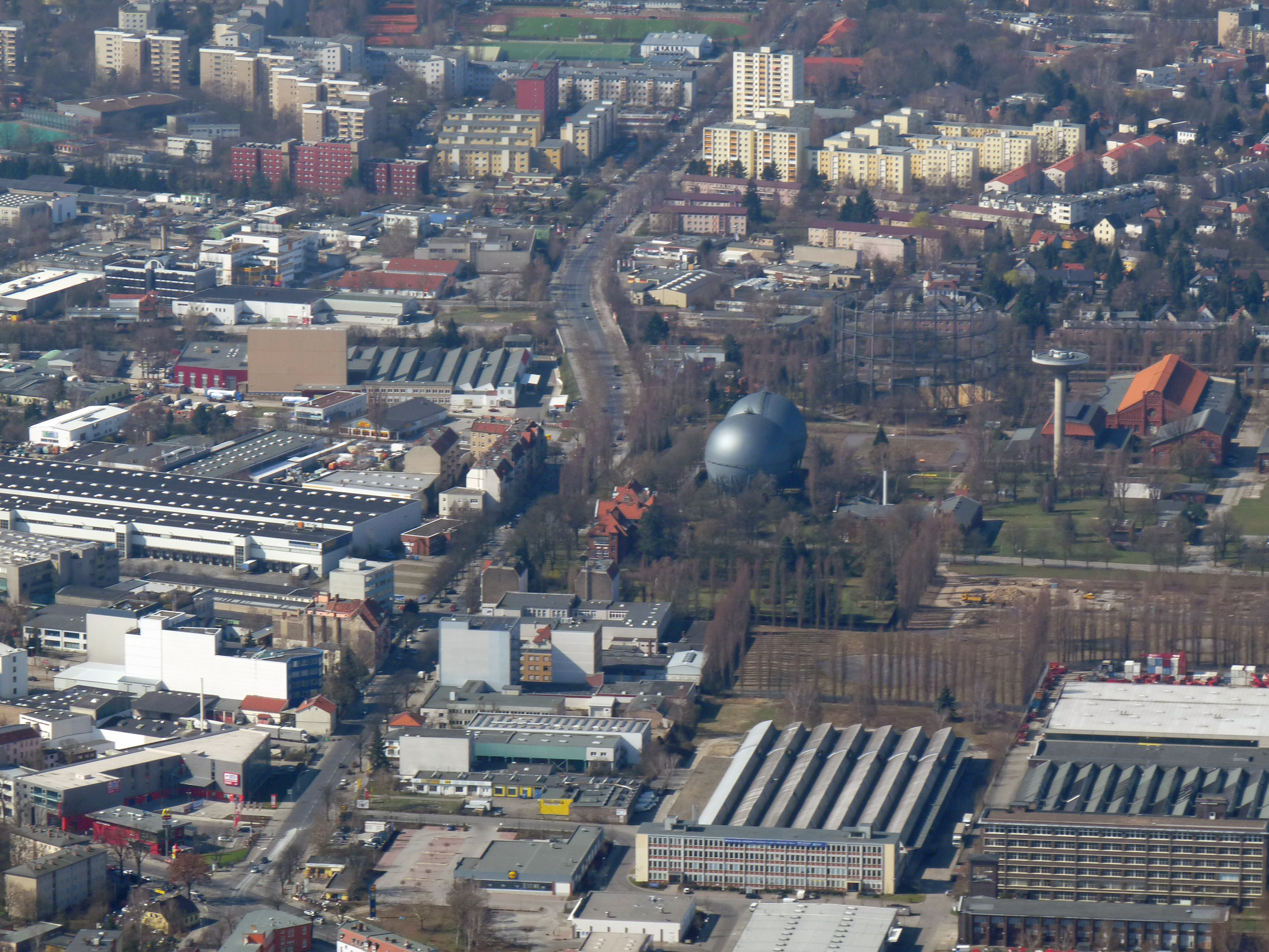 Aerial view of the gasworks Mariendorf and viewing direction to Lankwitz